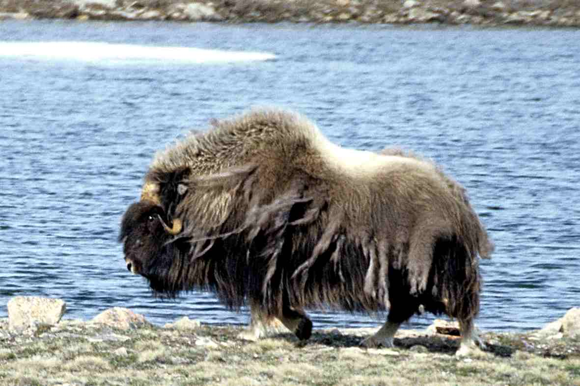 Muskox on Victoria Island, Nunavut Territory, Canada